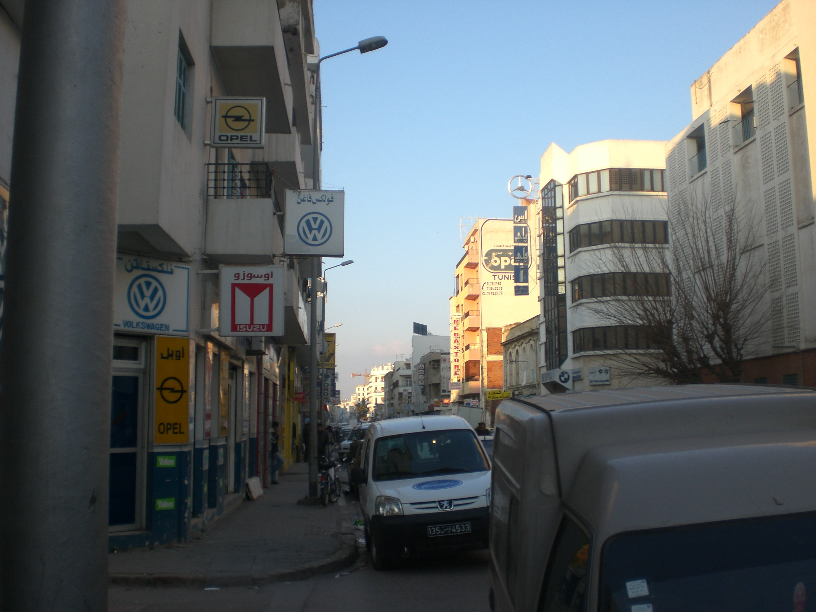 Hedi Chaker avenue in Tunis